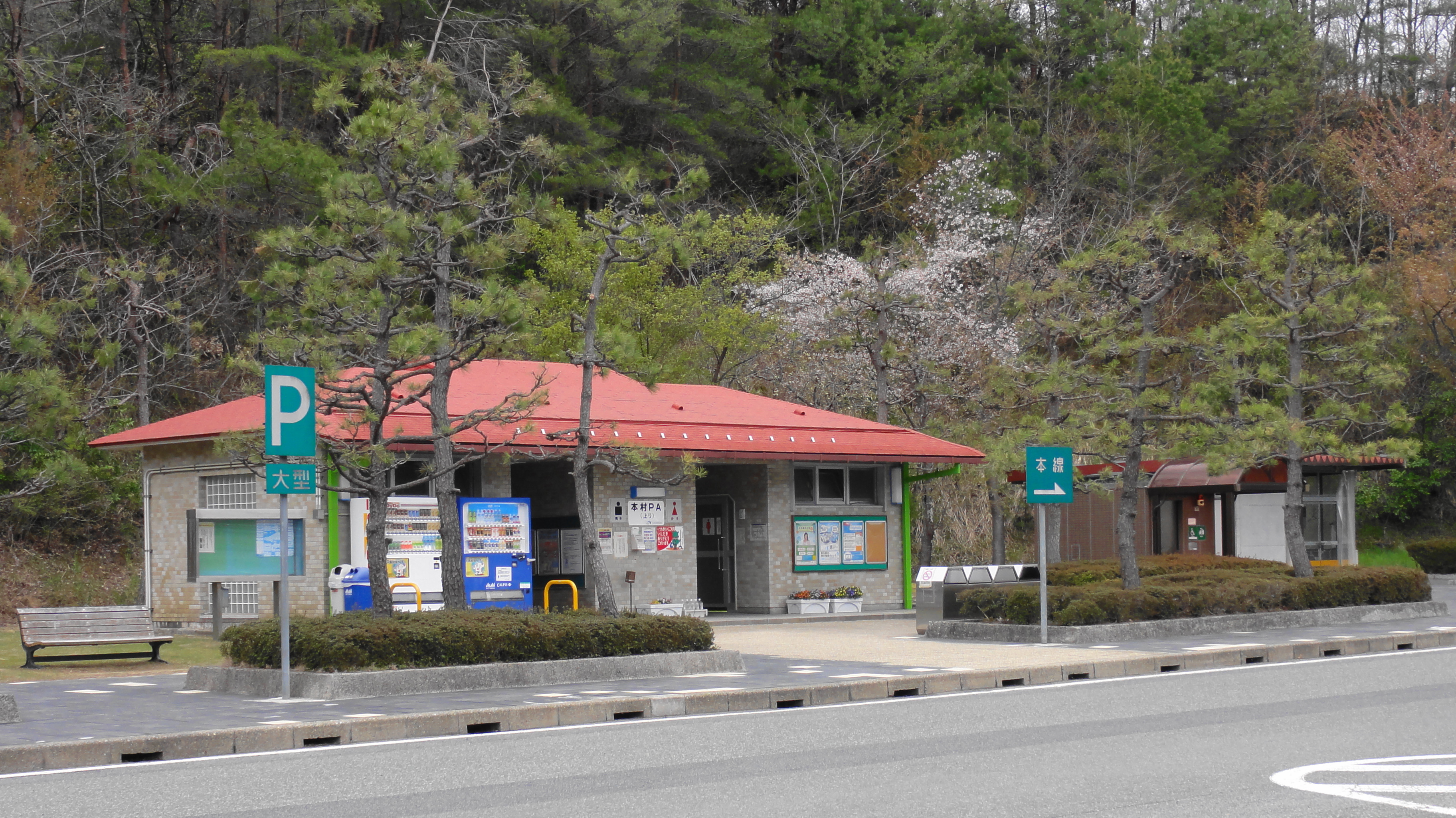 Honmura Parking Area,Hiroshima prefecture,Japan